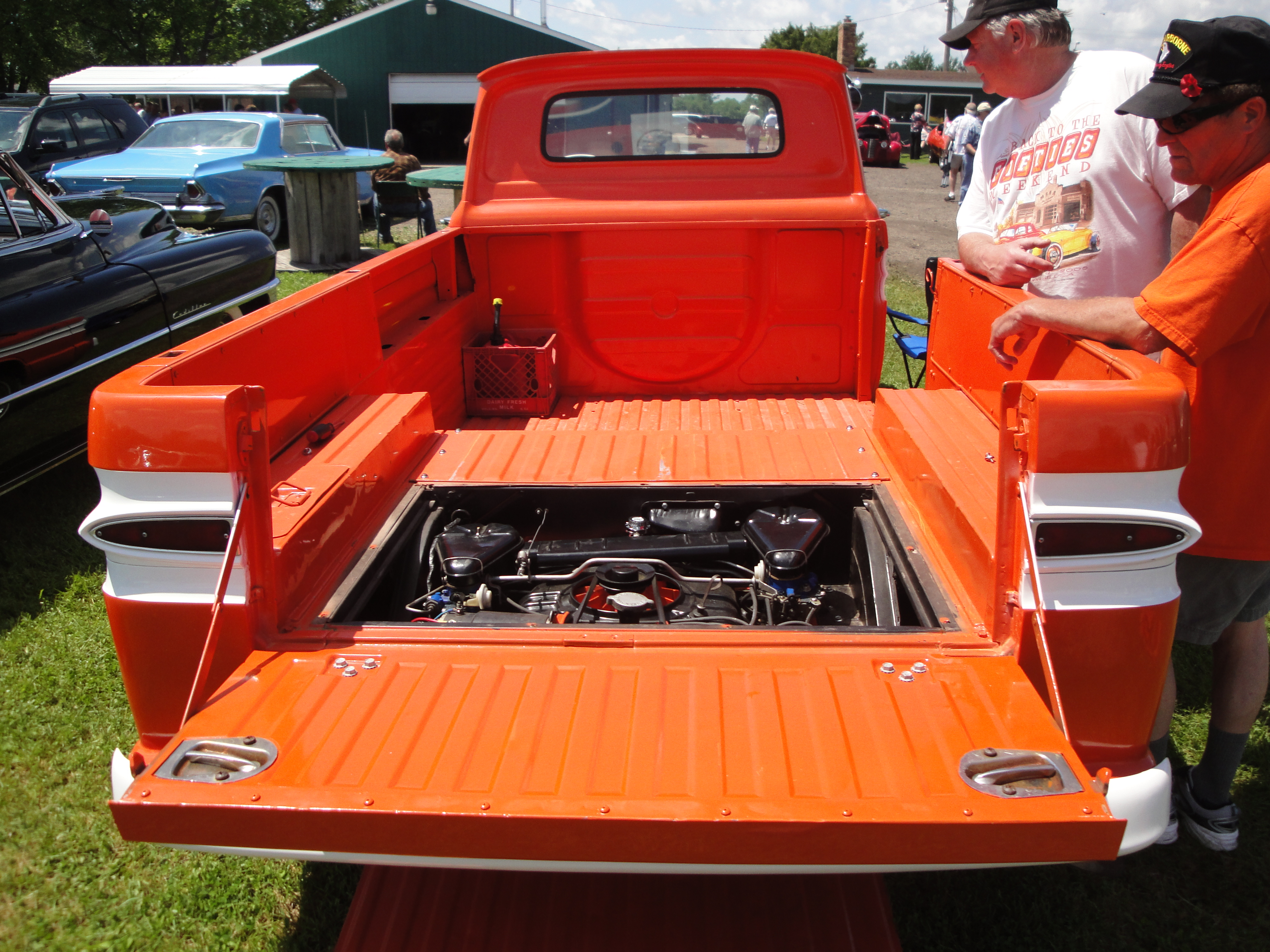 2012 Memorial Day Car Show Hosted by the North Star Chapter of the Studebaker Drivers Club